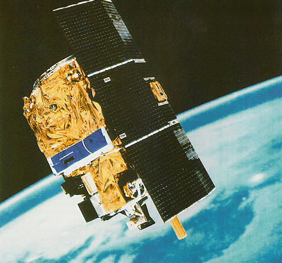 The first satellite in the Miniature Sensor Technology Integration (MSTI) Program, MTSI-1. It was launched into low earth orbit 21 November 1992 from Vandenberg AFB, California.